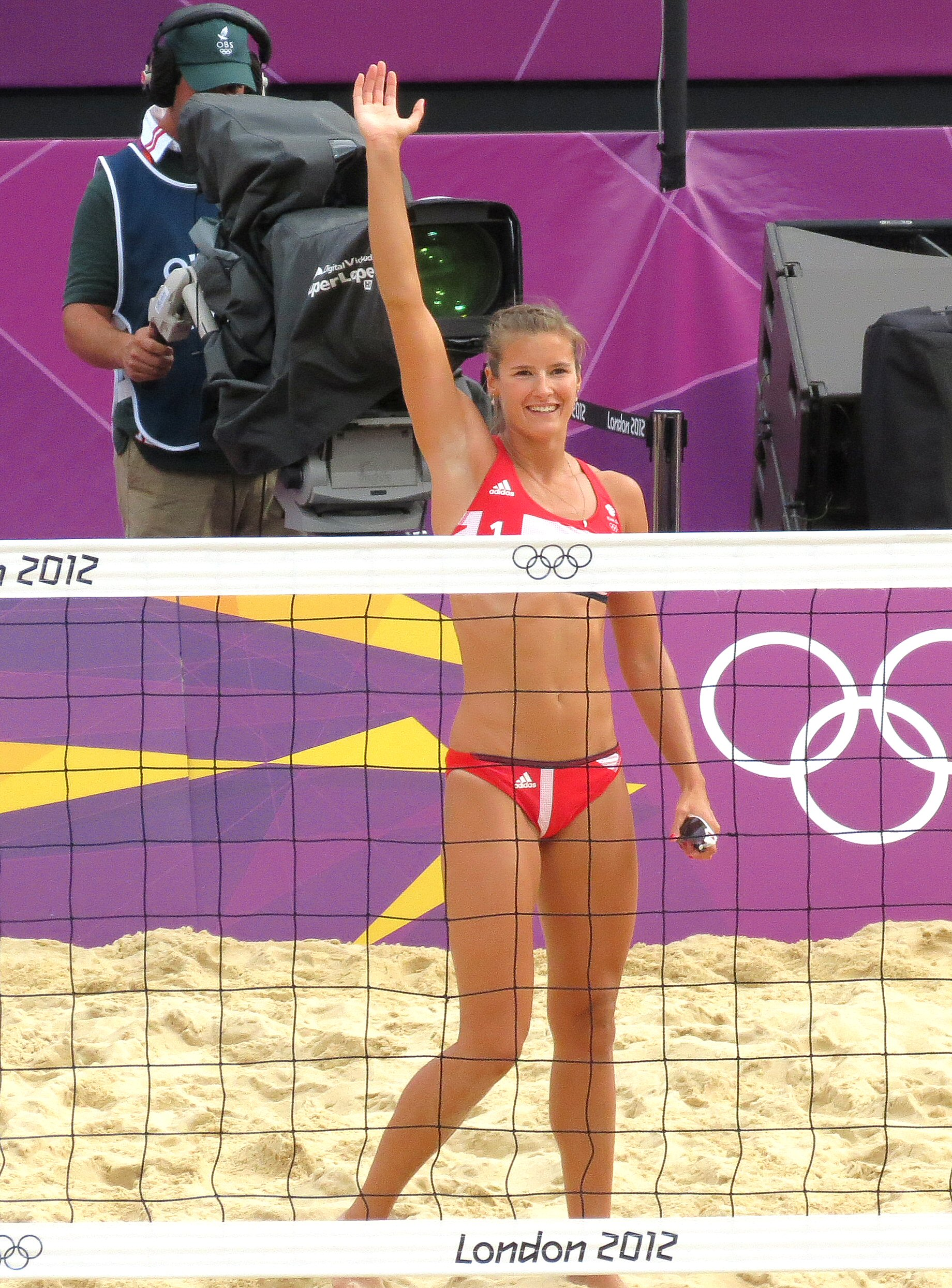 Zara Dampney playing for Team GB at the London Olympics 2012